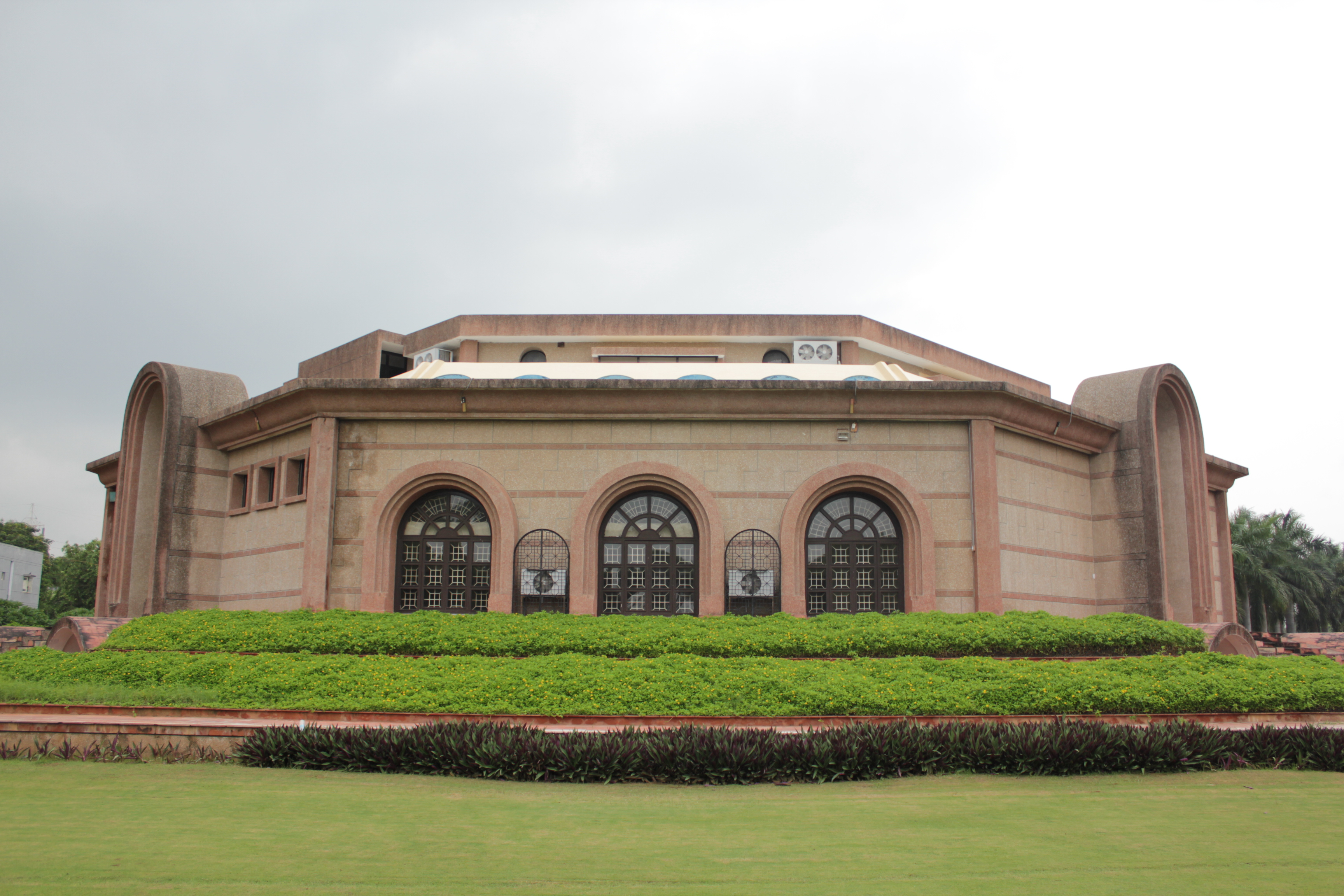 This building is the memorial of sardar patel and vitthal patel, located in karamsad Gujarat. The building is also housing a museum.